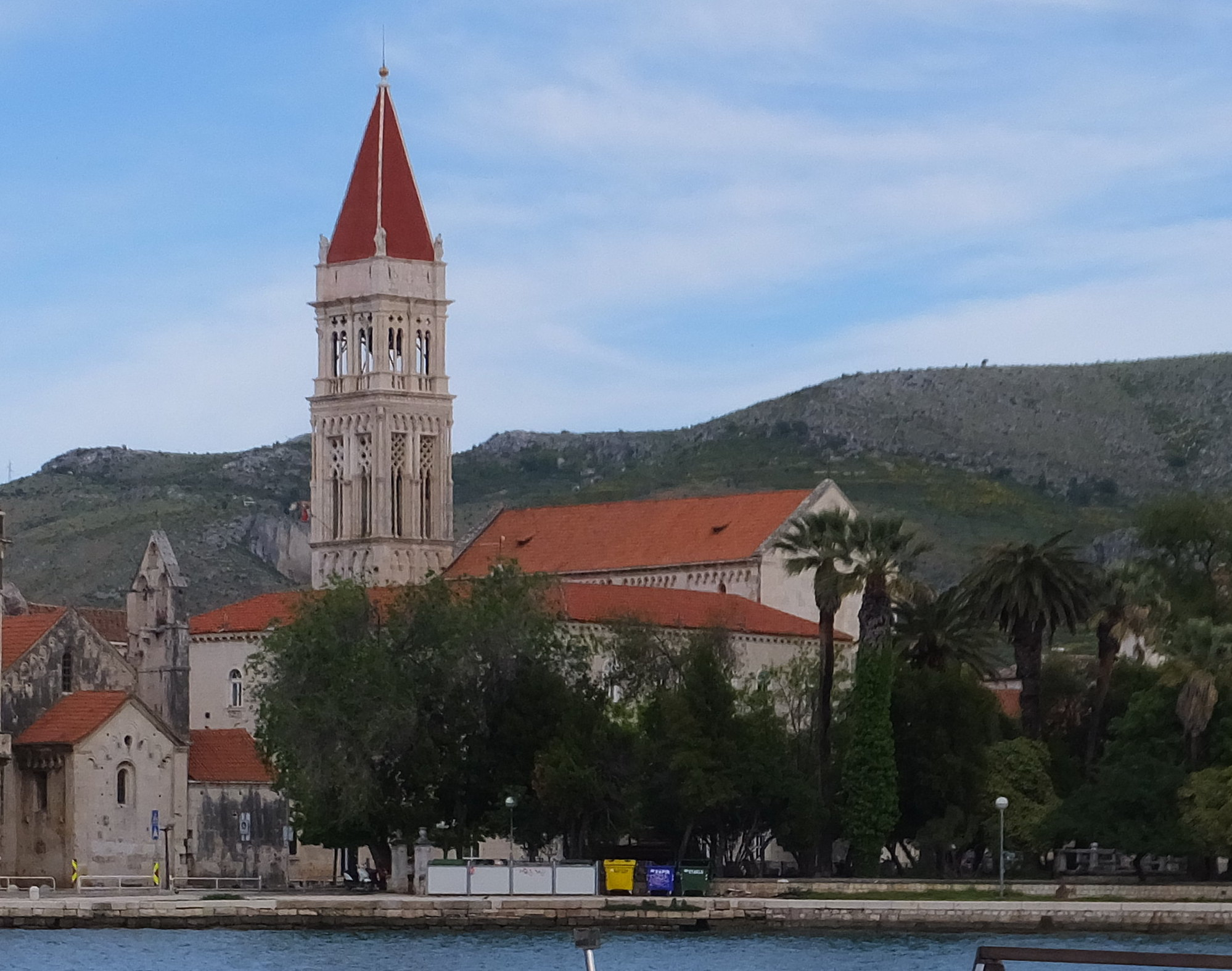 Cathedral of St. Lawrence in Trogir